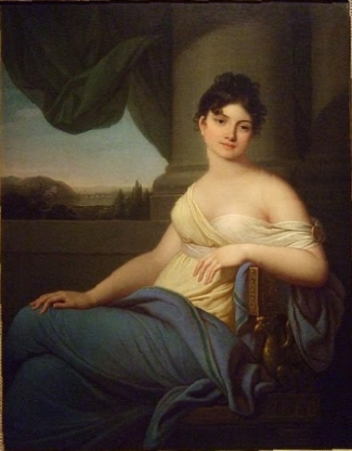 Maria Gontcharova Narychkine.